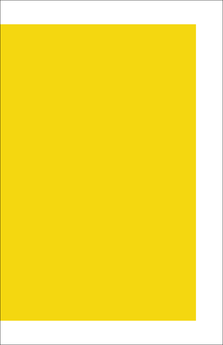 Based on David Nicolle "Armies of the Muslim Conquest" illustrations by Angus McBride. And Martin Hinds "The Banners and Battle Cries of the Arabs at Siffin" Al-Abhath XXIV